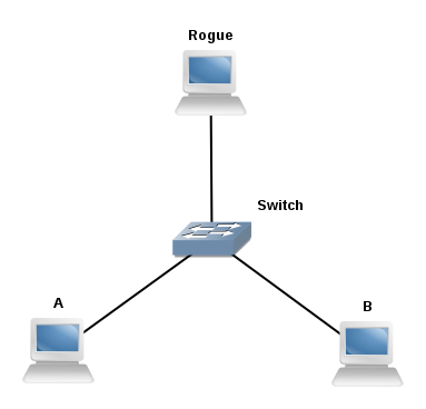 A sends ARP-request to B but Rogue replies